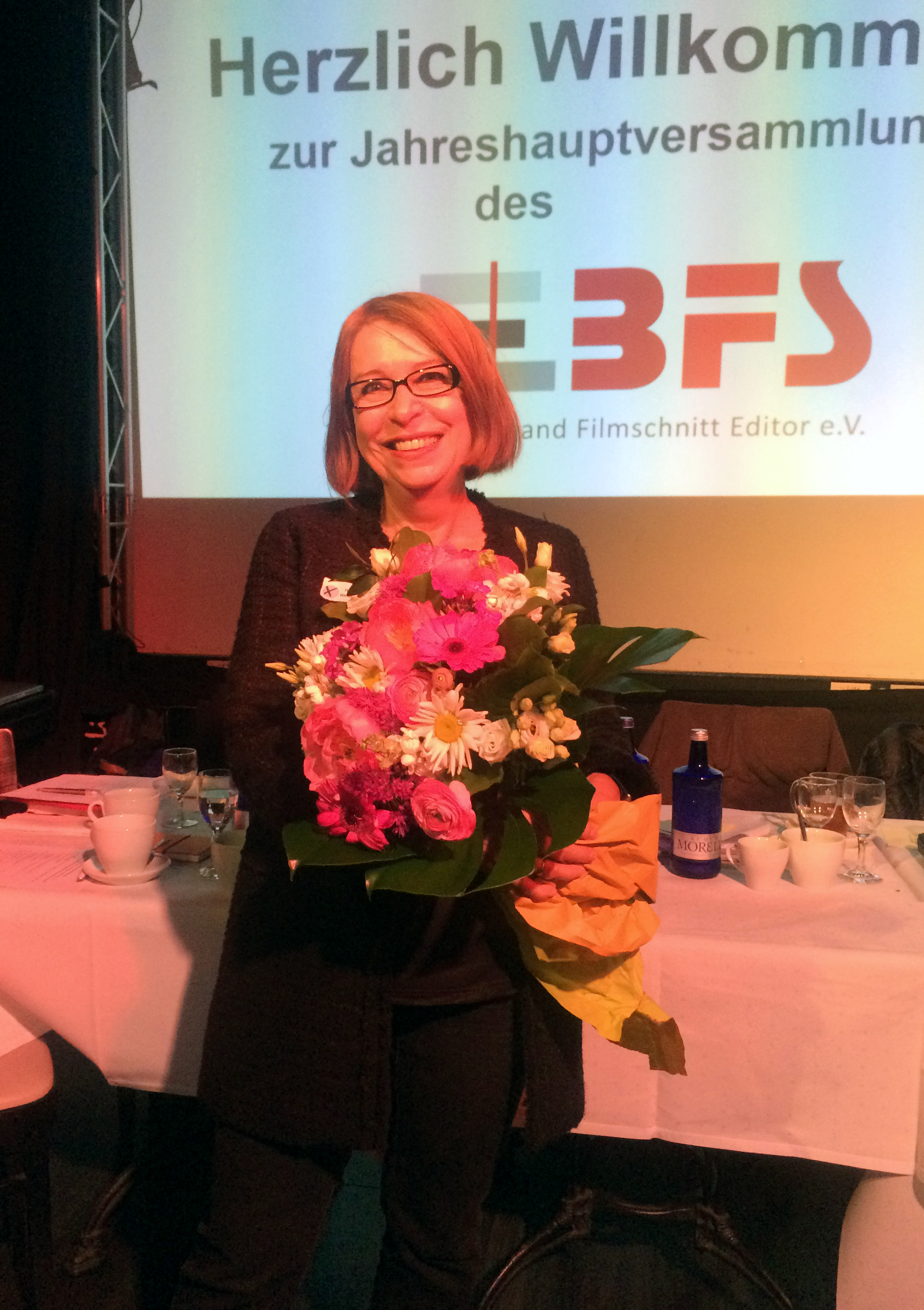 Film editor Heidi Handorf being presented as the new honorary member of the German editors guild (Bundesverband Filmschnitt Editor e.V.) in Berlin on 6th May 2017, during the annual general assembly of the guild.